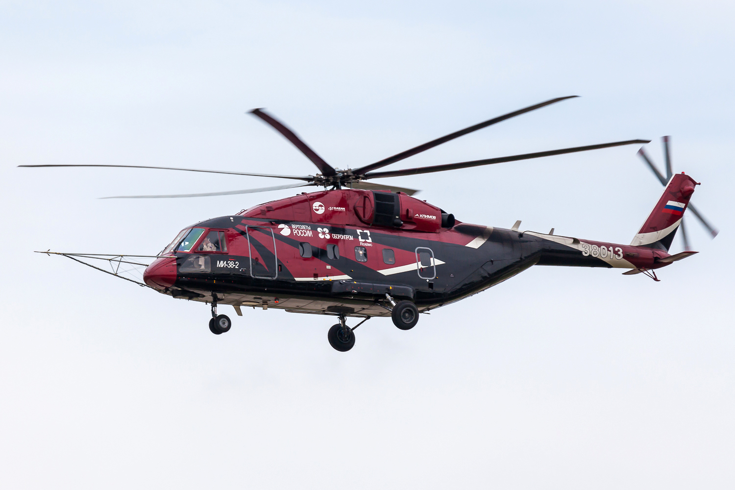 Mil Mi-38-2 (38013) at Moscow Zhukovsky